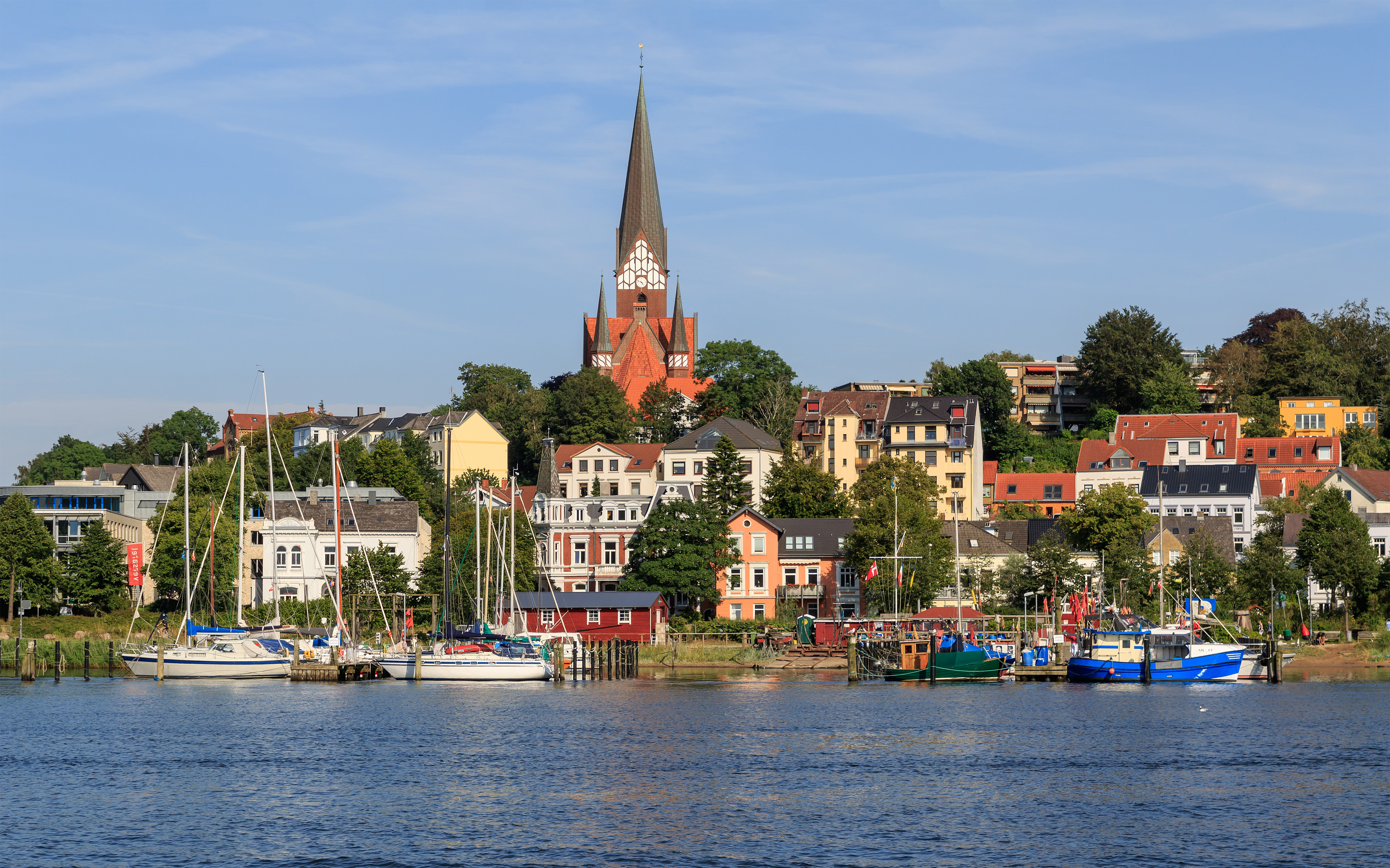 View towards Jürgensby in Flensburg, Germany